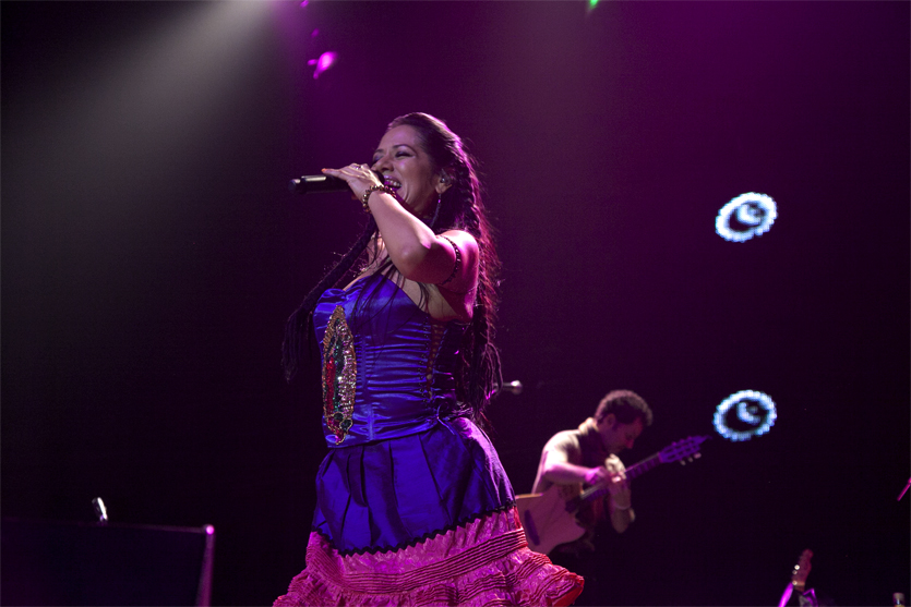 Lila Downs in 2012 in Chicago.